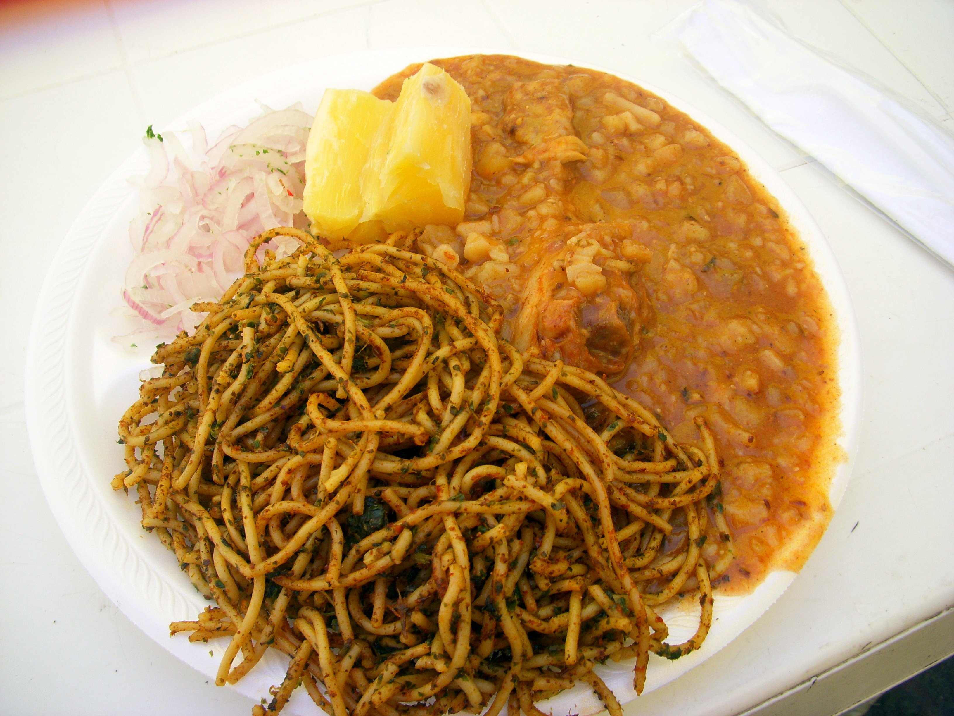 I forgot the name...